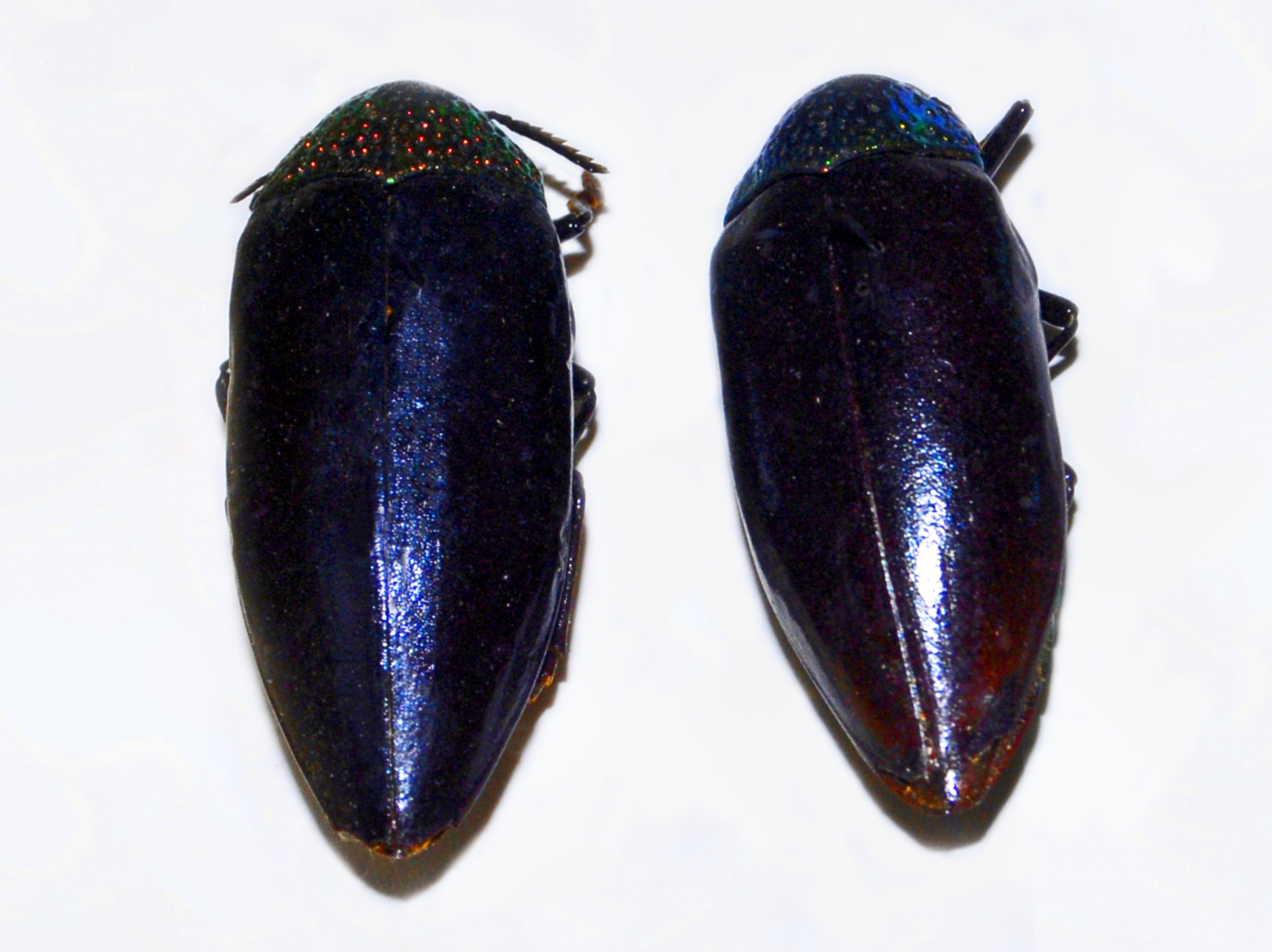 Sternocera chrysis. Mounted specimen. On display at the Civico Museo di Storia Naturale di Trieste